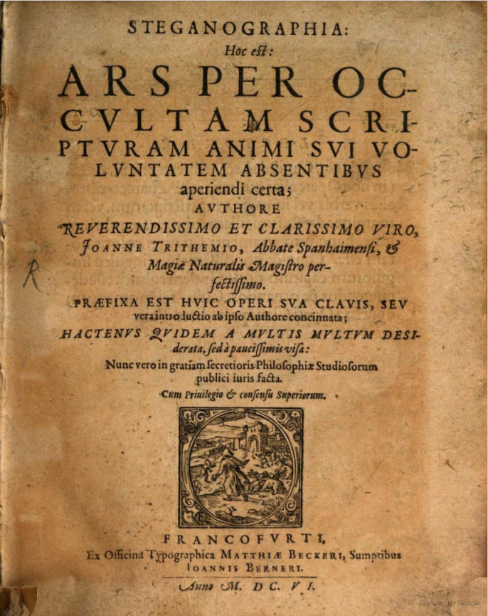 Trithemius, Johannes. Steganographia, first published 1606, written c. 1499. Digitized photographic reproduction. Translation: STEGANOGRAPHY: That is: THE SURE ART OF DISCLOSING THE INTENTION OF ONE’S MIND TO THOSE WHO ARE ABSENT THROUGH SECRET WRITING; BY THATMOSTREVERENDANDFAMOUSMAN, Johannes Trithemius, Abbot of Sponheim, & Most Perfect Master of Natural Magic. PREFIXED TO THIS WORK IS ITS KEY, OR a true introduction, composed by the Author himself; HERETOFORE MUCH DESIRED BY MANY, though seen by very few: But now brought into the public domain for the sake of Students of secret Philosophy. With the Privilege & consent of his superiors.